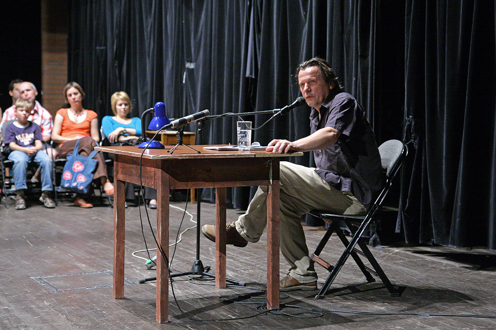 Jan Balaban, Authors' Reading Month 2009, Brno, Czech Republic, photo by David Konecny